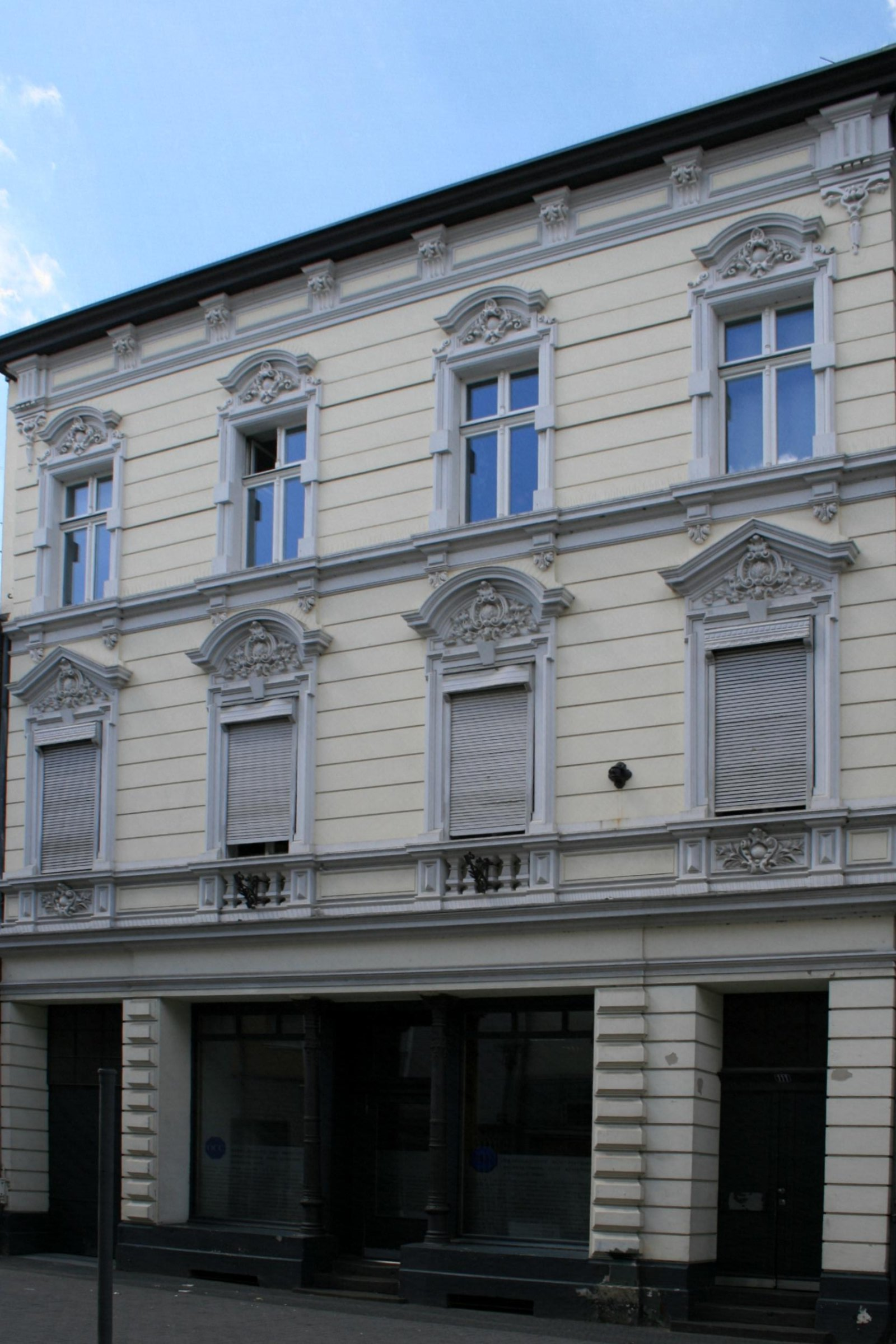 Cultural heritage monument No. E 013 in Mönchengladbach